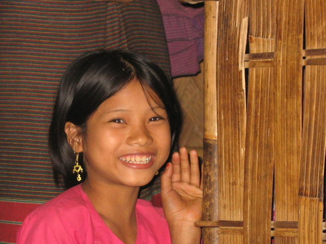 A girl of the tribe "Khumi".